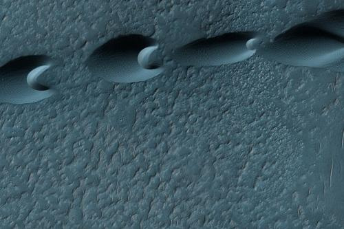 Barchans as seen with HiRISE. Location is 41.4 degrees south latitude and 315.4 degrees west longitude. Image was taken by HiRISE on the Mars Reconnaissance Orbiter. Note: image is not map projected so north is 187deg clockwise from the vertical. Photo credit is Image NASA/JPL/University of Arizona.